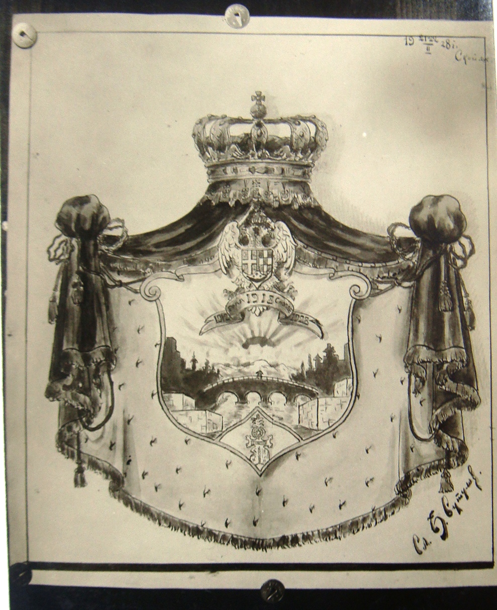 Historical images of Skopje: Coat of arms of Skopje from the time when Skopje was under the administration of the Kingdom of Yugoslavia. This media file is produced by Wikipedian in Residence in Category:Wikipedian in Residence at DARM in 2016.